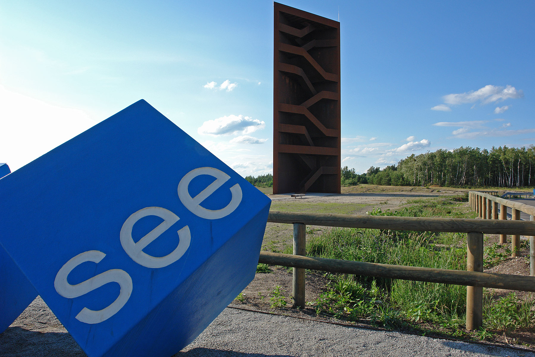 Landmark sculpture at the Sornoer canal.